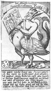 Cover page of Grimmelshausen's book "Simplicissimus" (17th century), 2. issue 1671.